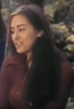 Sandra Peabody as Mari Collingwood.